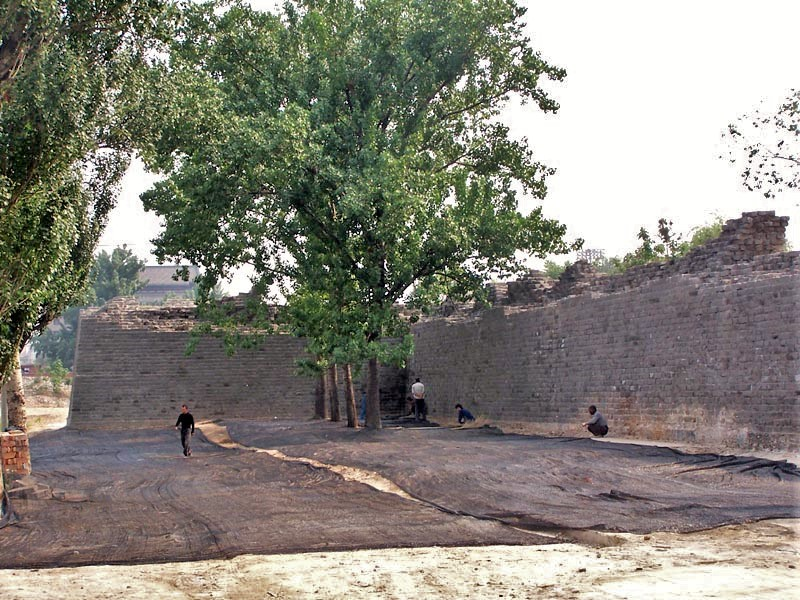 ruins of Beijing City Wall near the Southeast Corner Tower